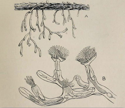 Plumatella repens; Plumatellidae; A. partly free, partly incrusting a stem of a water weed B. Cell magnified